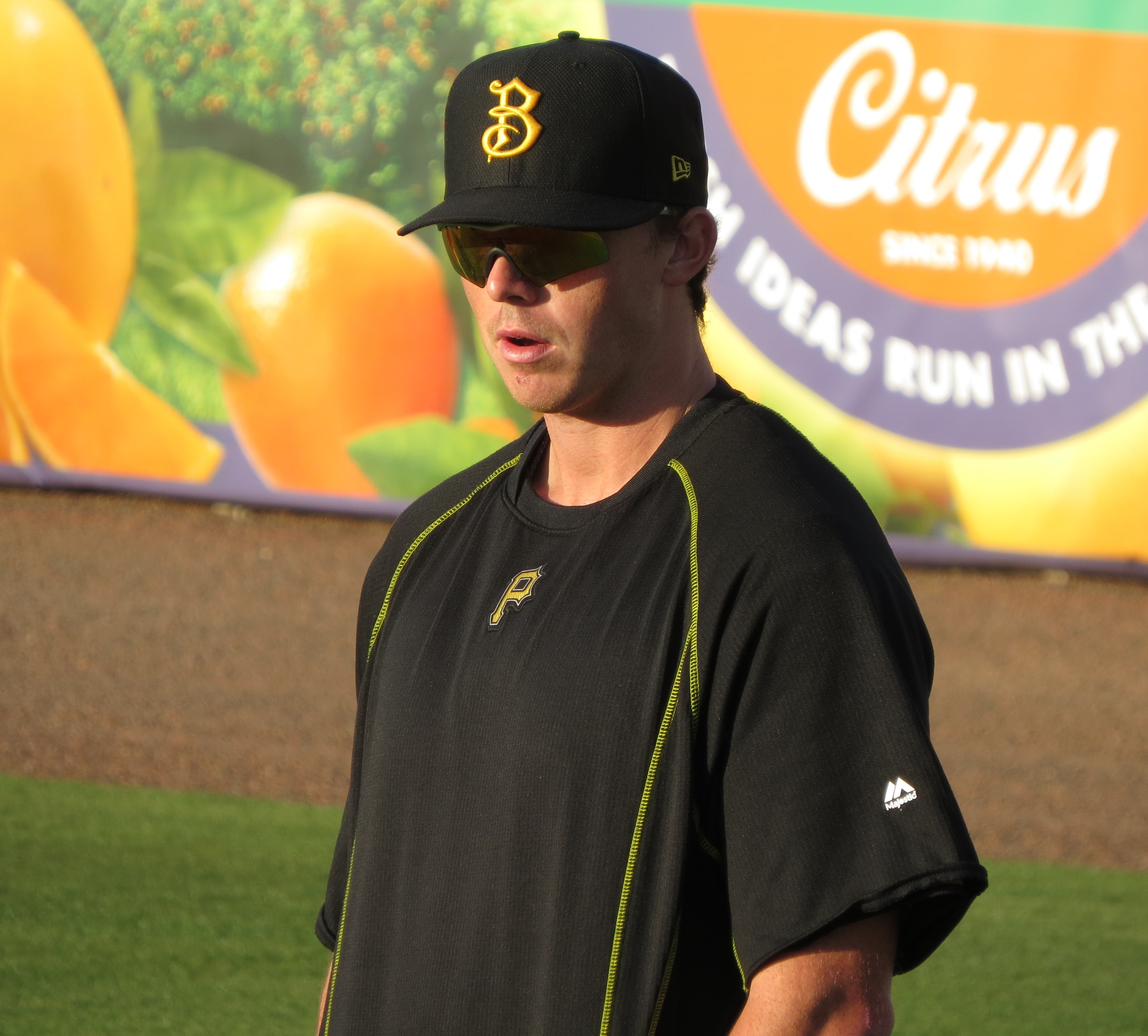 McRae in the outfield